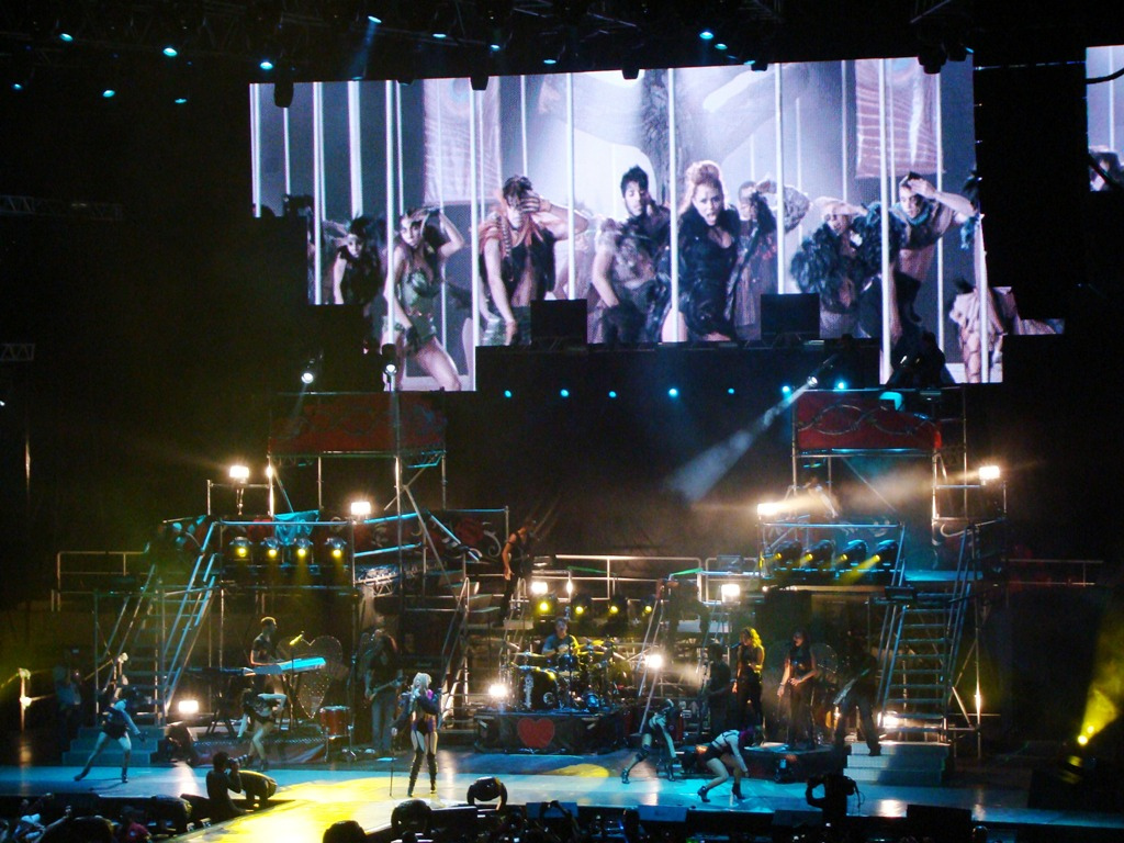 Miley Cyrus singing live in Curicica, Rio de Janeiro, RJ, BR from her tour 'Gypsy Heart'